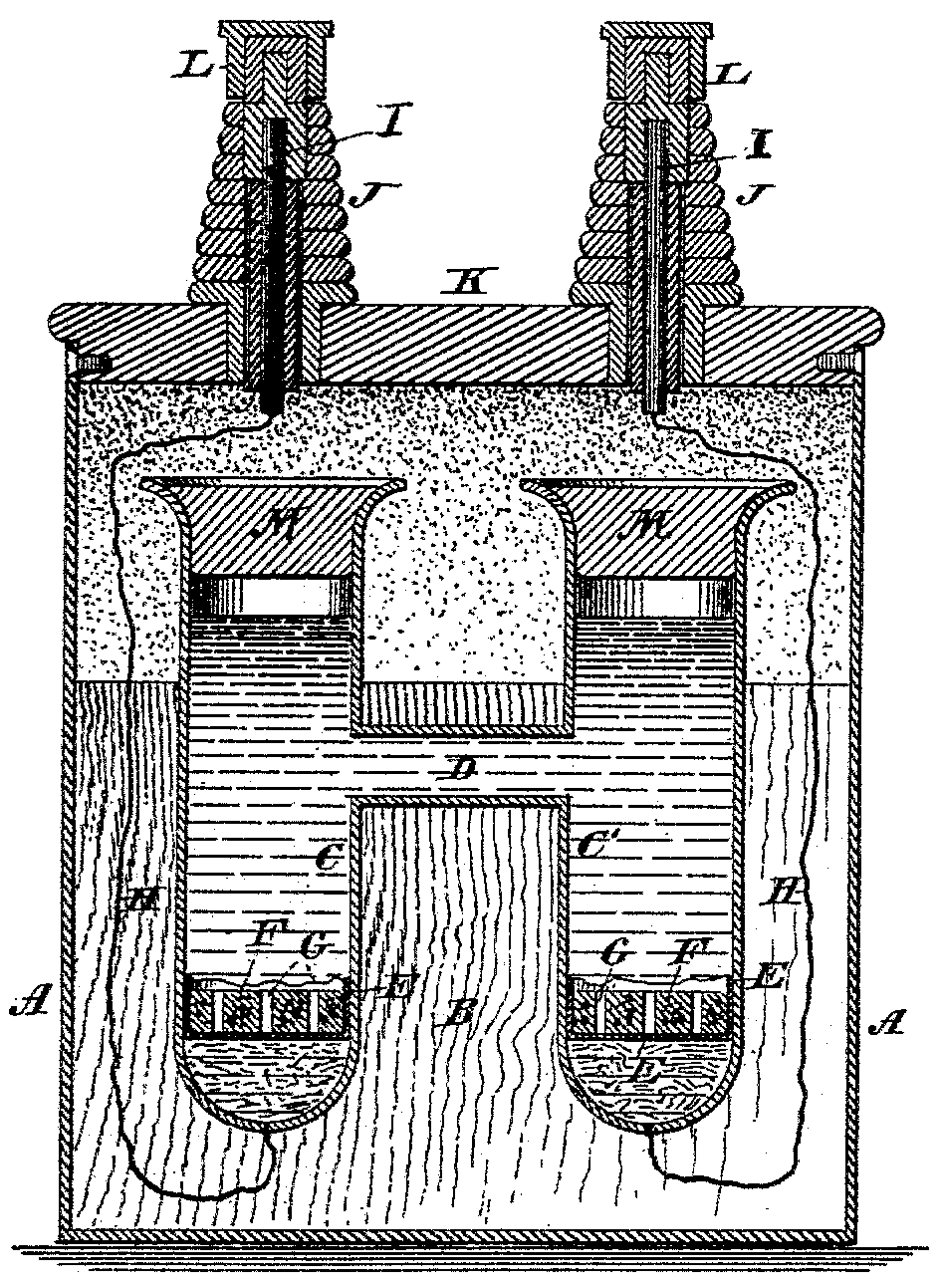 Extracted from PDF revealing US patent 494,827. A: Outer shell or casing made preferably of sheet brass, elliptical in form. B: Wooden block containing cavities or recesses to receive the glass cells C, C'. C, C': Glass cells consist of two cylindrical vessels connected by a transverse tube D. E: Piece of muslin or other suitable cloth. F: Cork pierced with apertures G. H: Connecting wires. I: Copper wires, connected to H. J: Suitable binding posts, provided with covering caps L. K: Cover of the shell A, which is made of rubber. M: Suitable stoppers, inserted in the mouths of the cell.